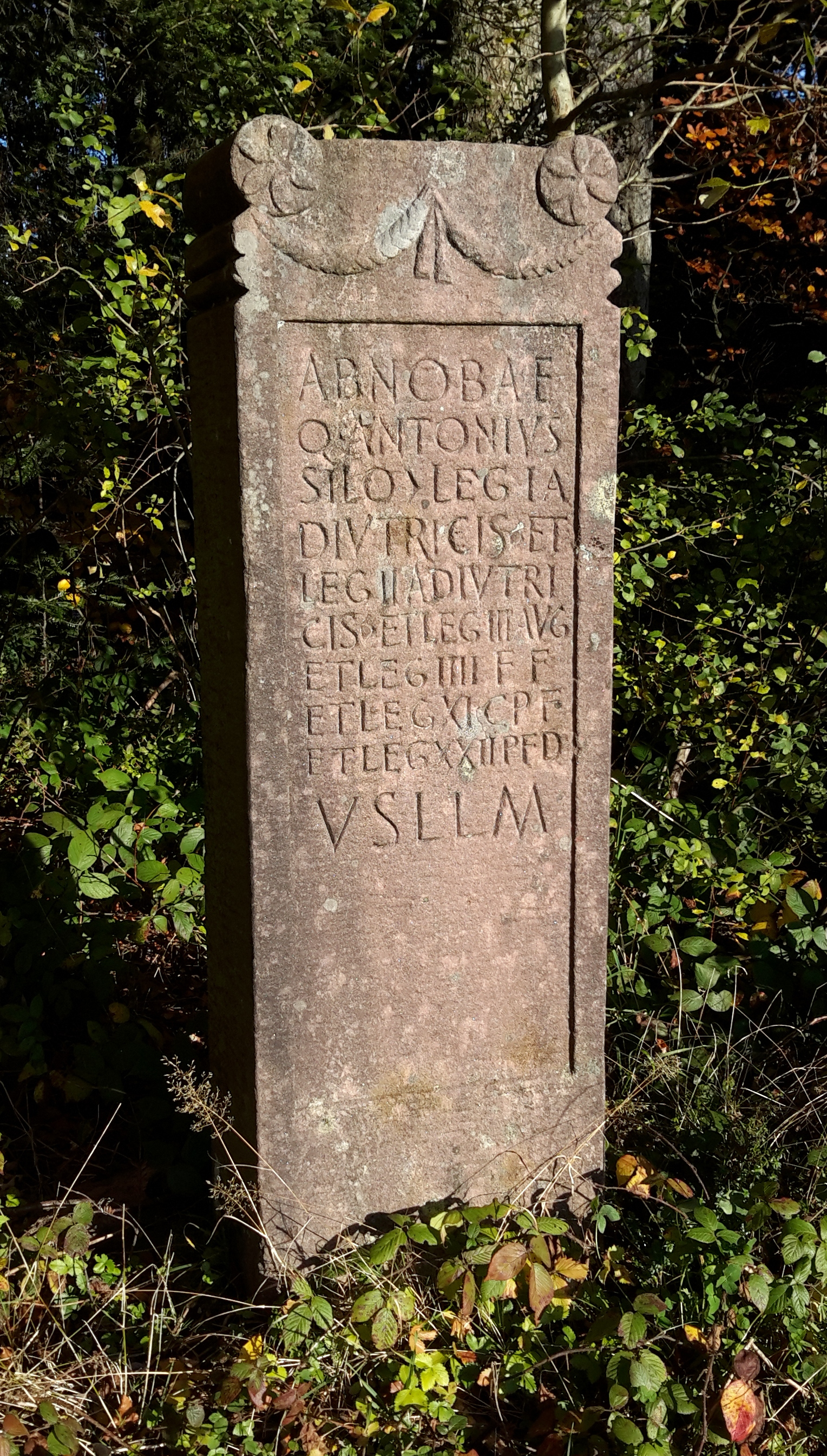 Nachbildung Abnoba Altar Brandsteig